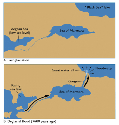 Illustration of the Black Sea deluge, before and after.